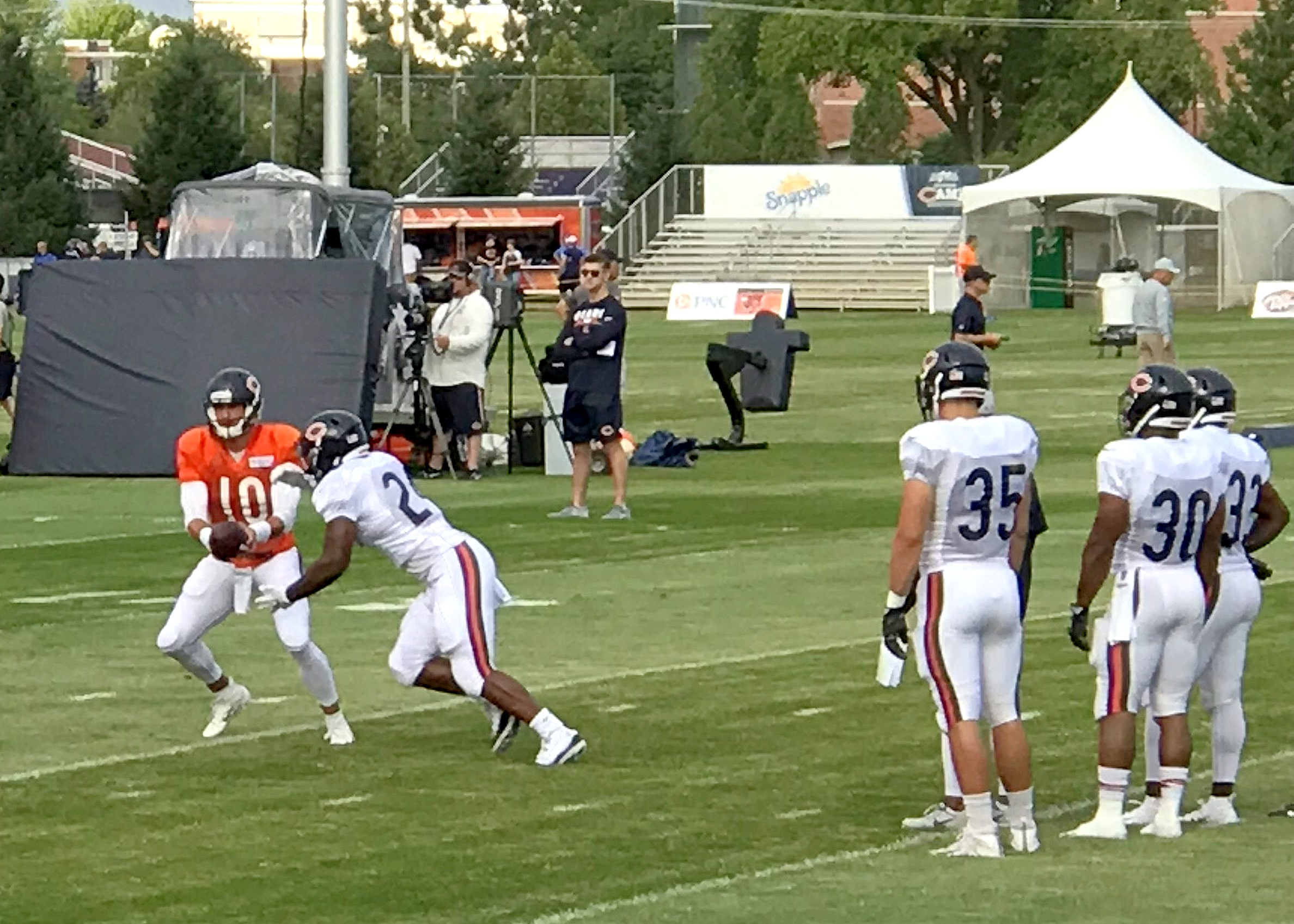 Stryde and I went to see the Chicago Bears at their Summer Training Camp 2018